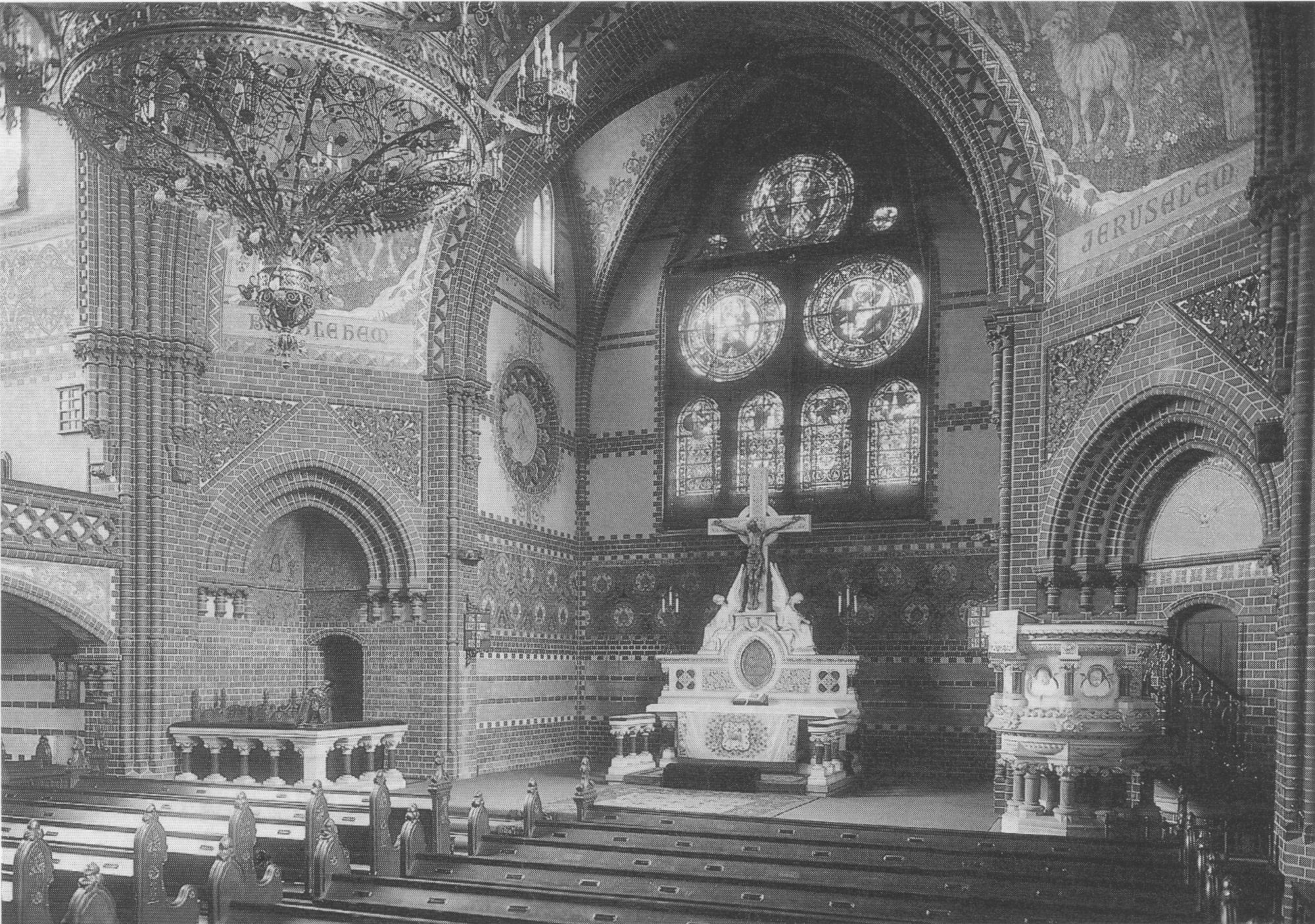 interior of the Emperor Friedrich Memorial Church (Kaiser-Friedrich-Gedächtniskirche) in Berlin by architect Johannes Vollmer (1845-1920)